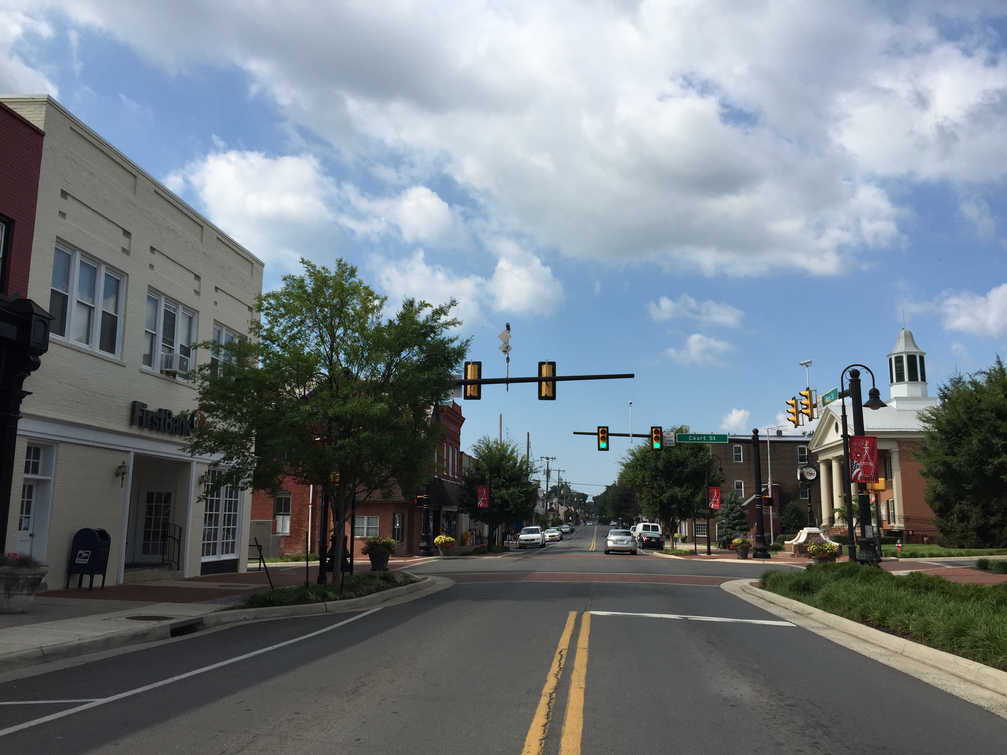 View south along U.S. Route 11 (Main Street) just north of Court Street in Woodstock, Shenandoah County, Virginia